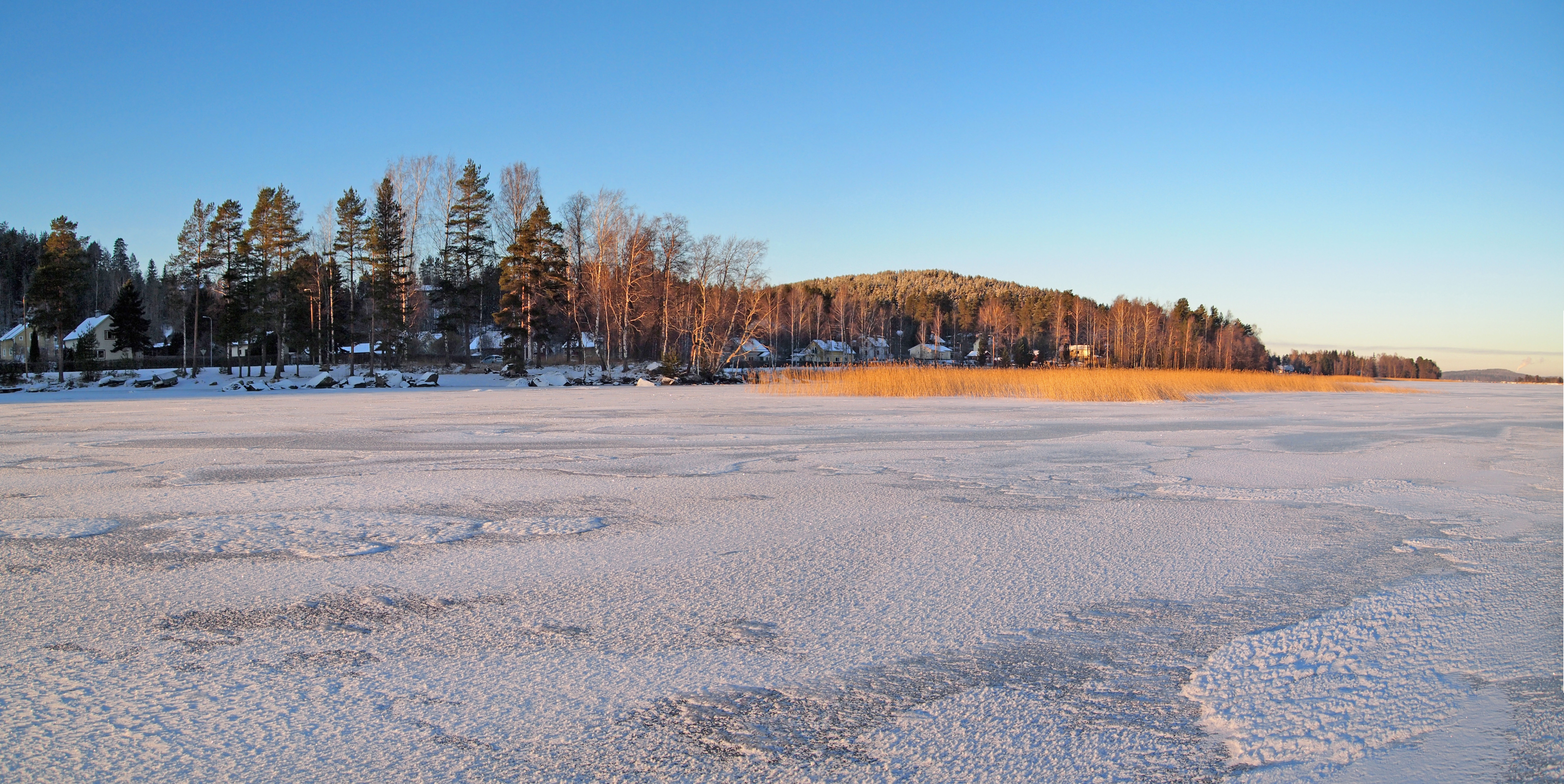 View from frozen lake Päijänne to the island Muuratsalo, Jyväskylä.